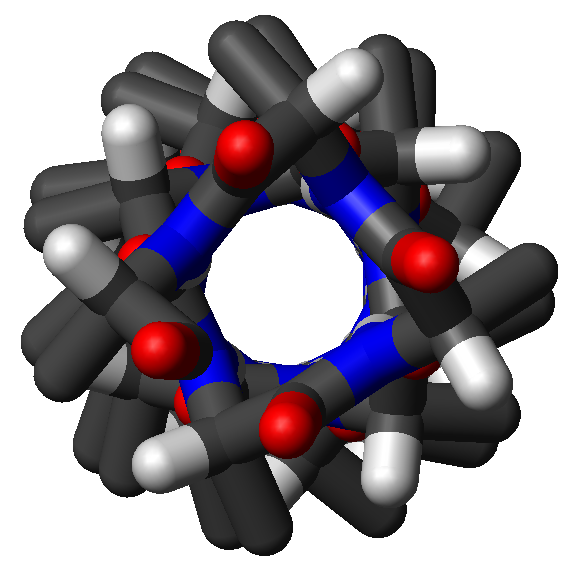 Close-up topview of a "stick" model of an alpha helix of poly-alanine using the dihedral angles φ=-60° and ψ=-45° and the Engh&Huber bond geometry. (Cf. the corresponding side-view image just uploaded.) The PDB file was made by me on 18 October 2006 using my own software and visualized by me using MOLMOL. I release this image under the GFDL.